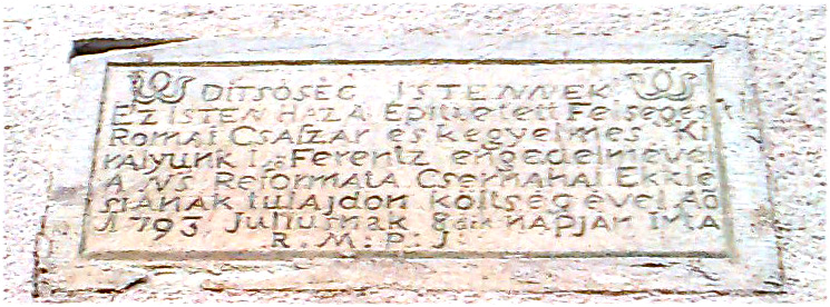 Memorial plaque on the reformed church in Csarnahó (Černochov, Slovakia)